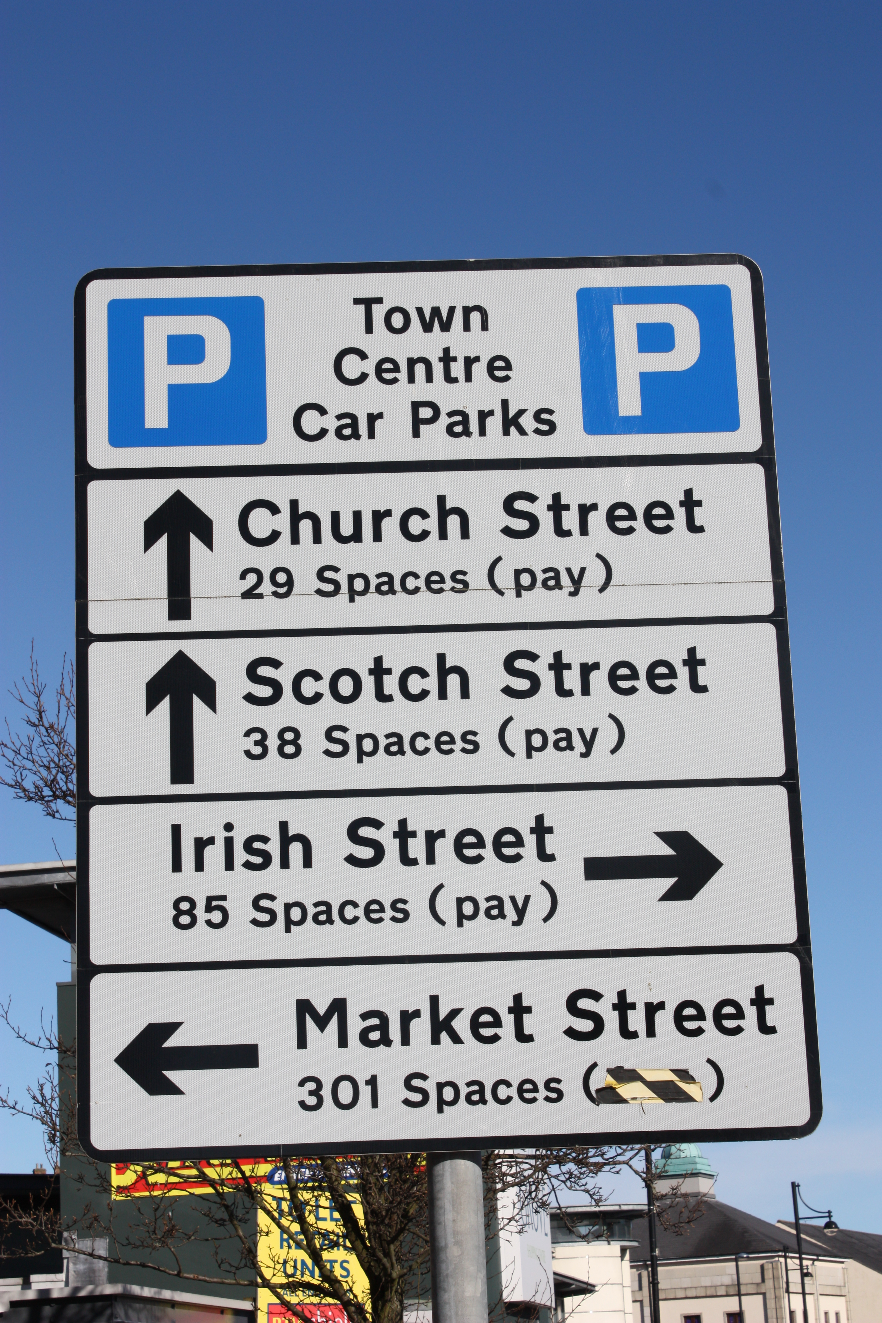 Parking sign, Market Street, Downpatrick, County Down, Northern Ireland, February 2010